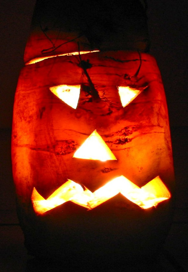 sugar beet